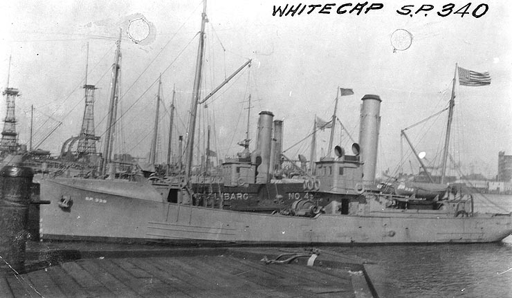 United States Navy minesweeper USS Crest (SP-339). The photograoh is annotated with a reference to patrol vessel USS Whitecap (SP-340) because of Crests similarity of design to Whitecap